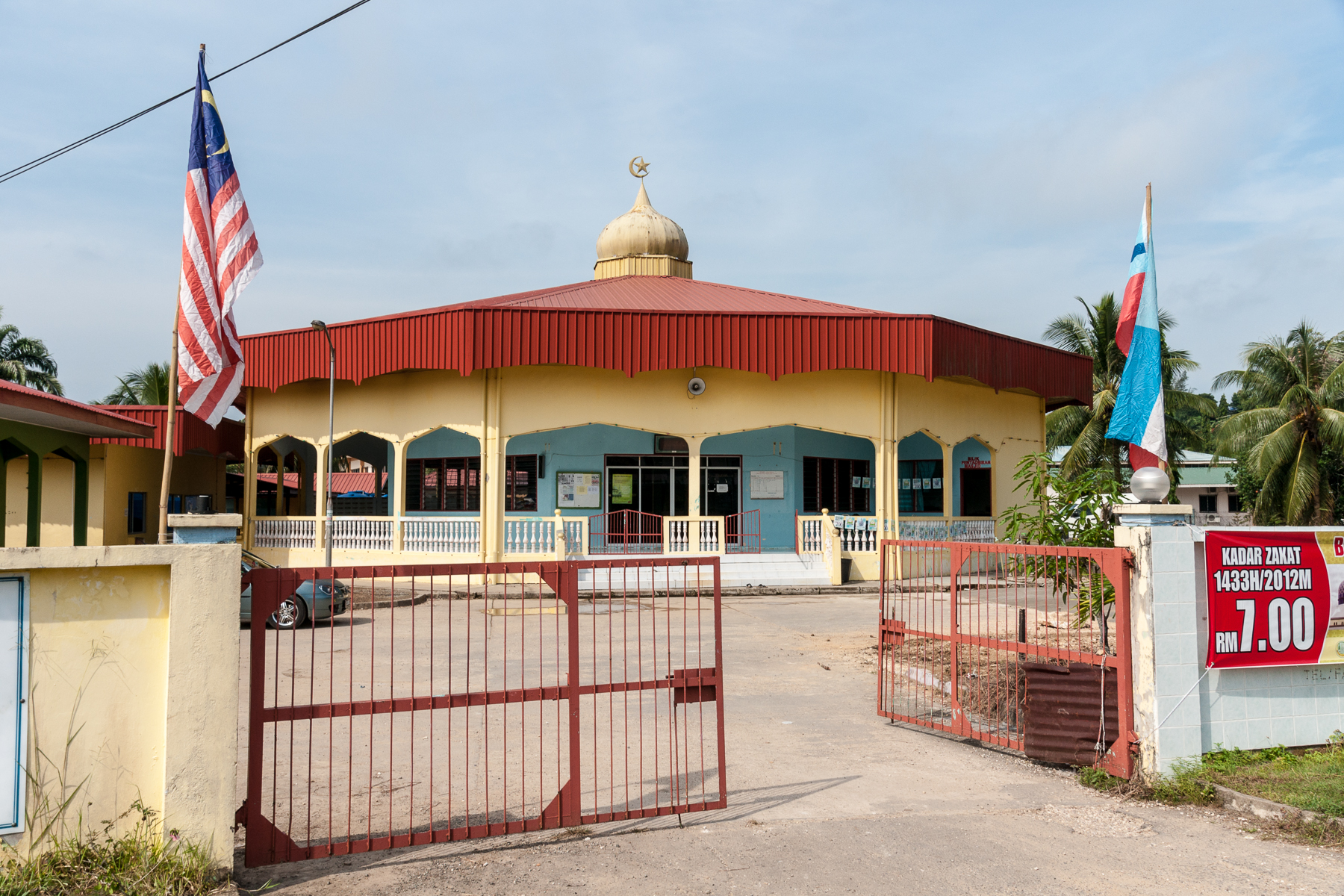 Beluran, Sabah: Masjid Pekan Beluran